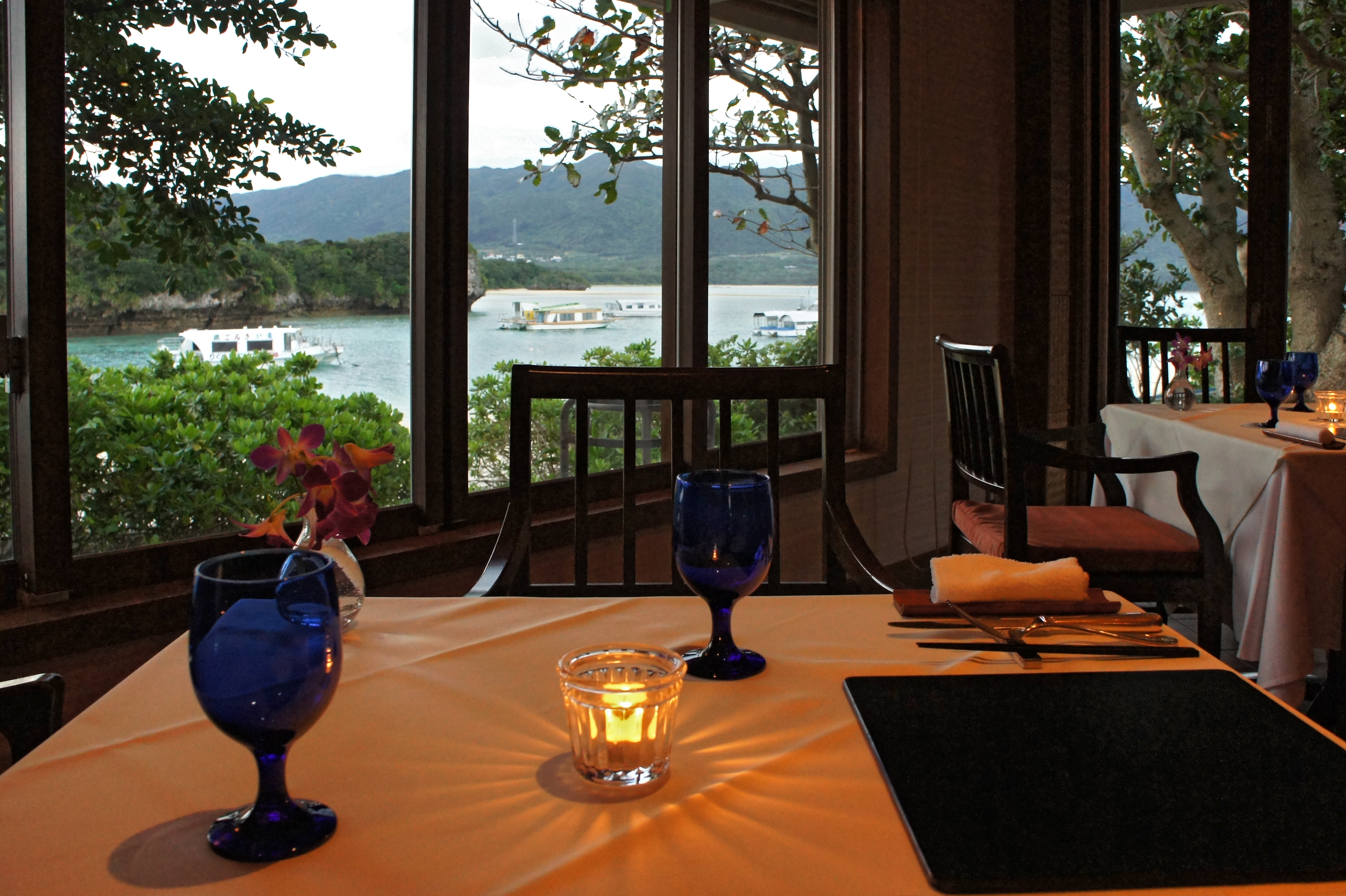 Auberge Kabira at Kabira Park in Ishigaki Island, Ishigaki City, Okinawa Prefecture, Japan.